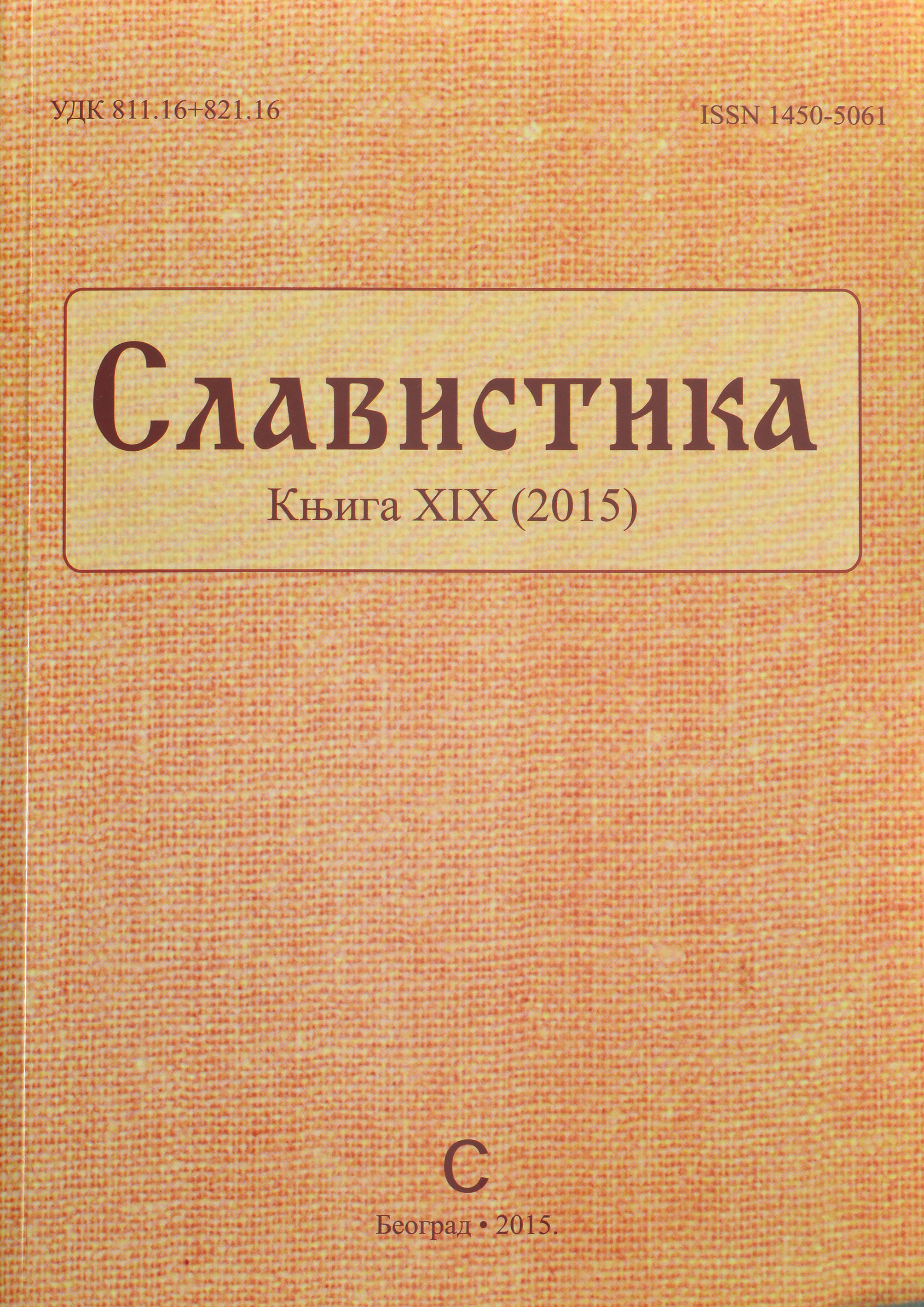 Slavistics: cover